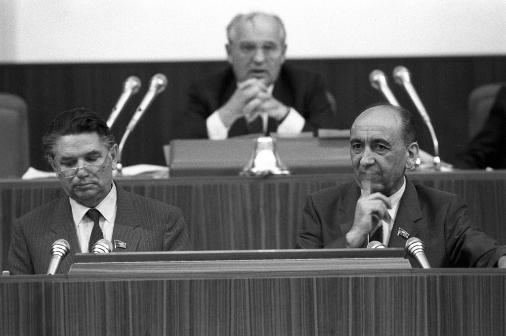 “1st Congress of People's Deputies of the USSR”. Procurator General of the USSR Alexander Sukharev and investigator Telman Gdlyan at the 1st Congress of People's Deputies of the USSR in the Kremlin Palace of Congresses. 1989.